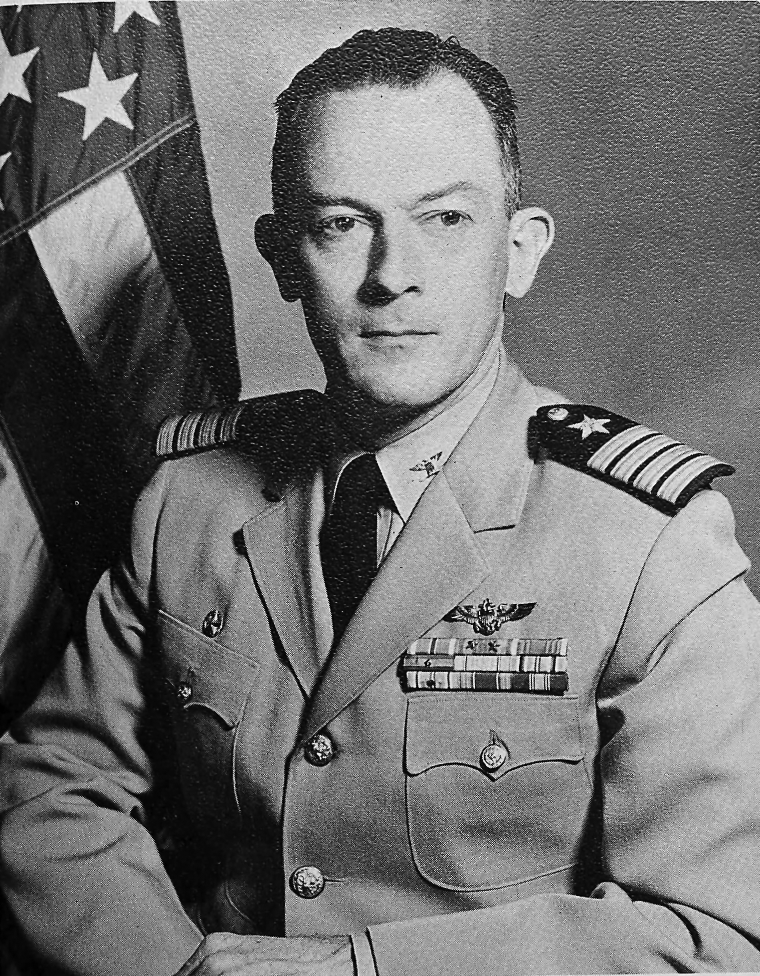 Official photo of RADM John Beling, USN (Retired), taken while captain of USS Forrestal